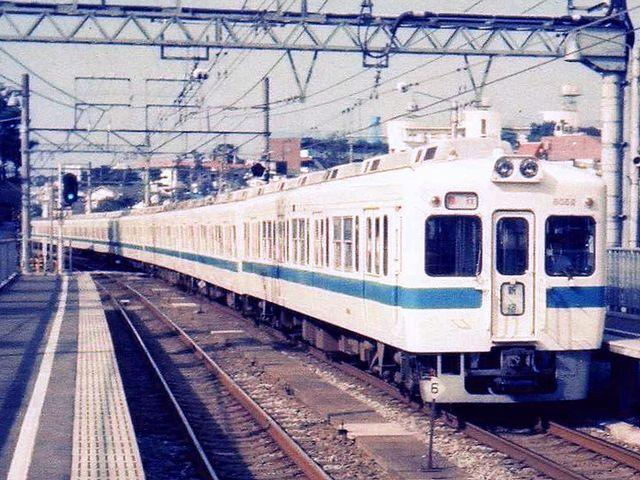 Odakyu Electric Railway Company, EMU Type 5000 at Sangubashi Sta.